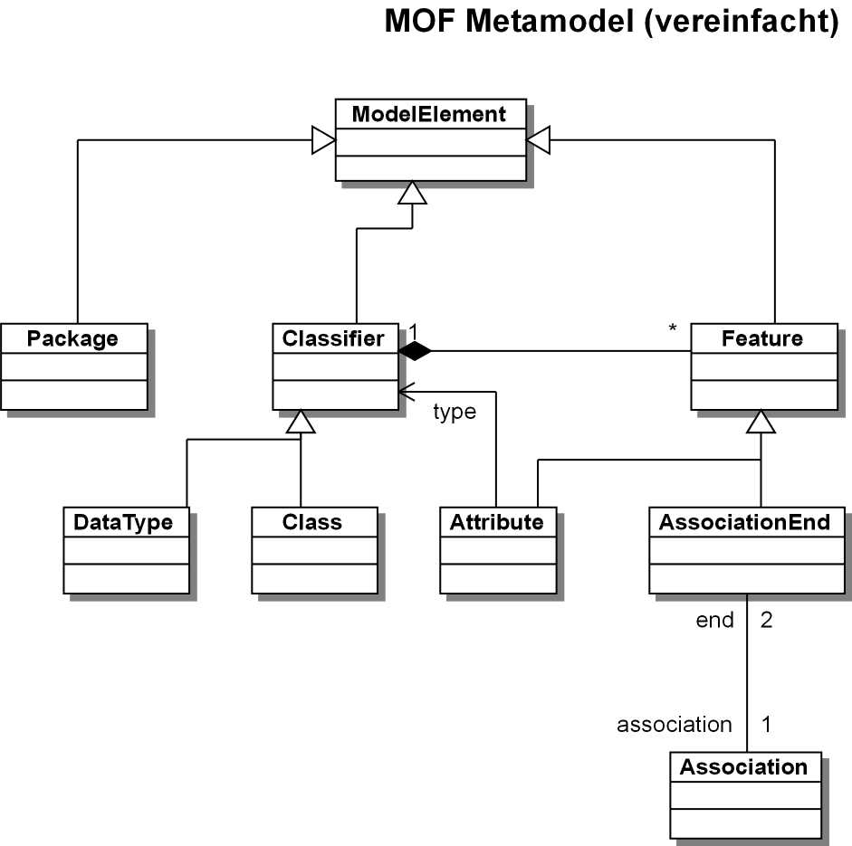 MOF M3-surroundings